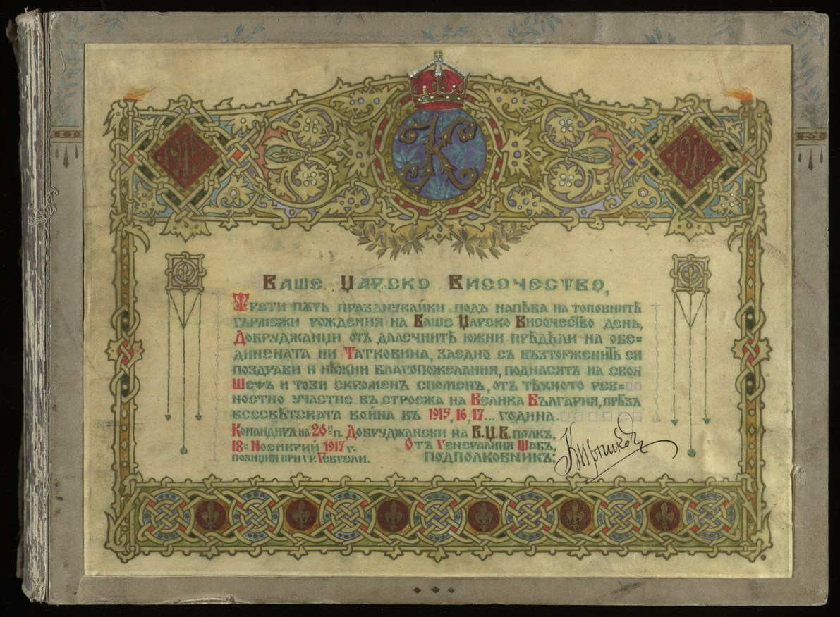 The album of the First World War on the 20th Invantry Regiment, Bulgaria. It was given by the commander of the regiment Ivan Kirpikov to Prince Cyril Preslavski, the head of the regiment.